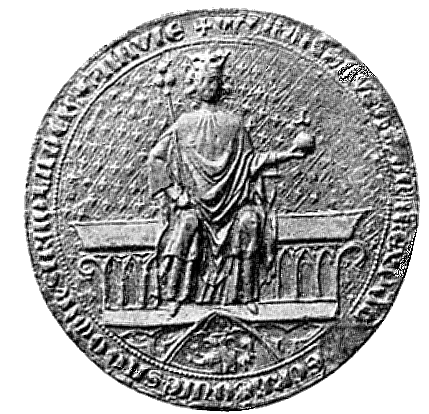 Great round seal of King Vladislaus the Elbow-High of Poland from 1320